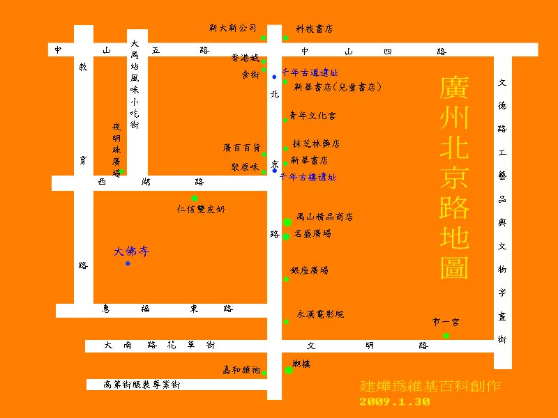 bei jin road map